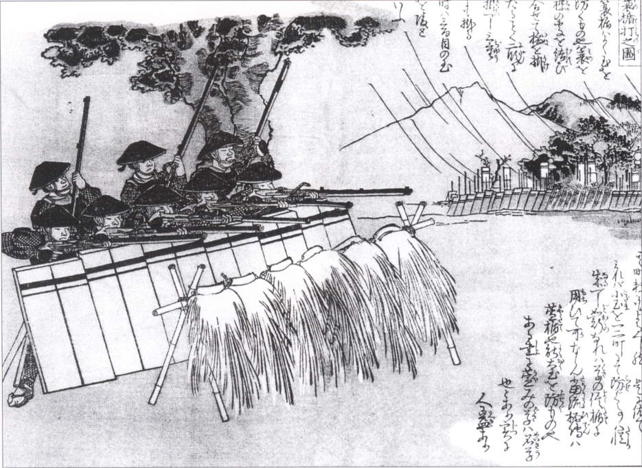 Ashigaru using matchlocks (tanegashima) and hiding behind shields (tate).